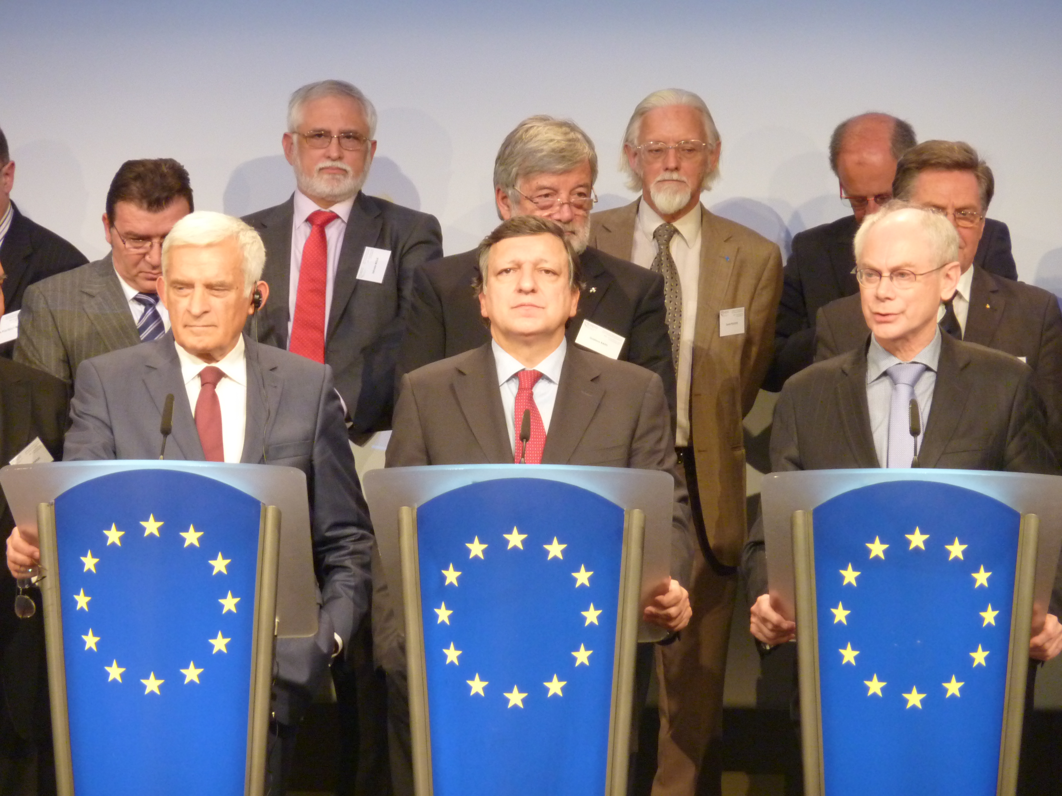 The three presidents of the European Union - Jerzy Buzek (European Parliament), José Manuel Barroso (European Commission), Herman Van Rompuy (European Council) - during a press conference in the Berlaymont in Brussels on the 30th of November 2011.